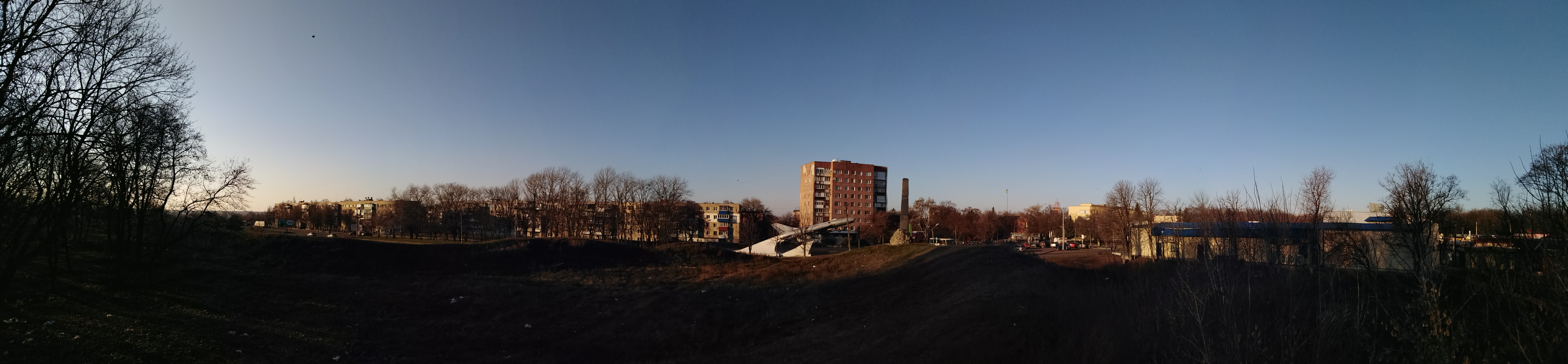 Ukraine, Kharkiv region, Krasnograd district, Krasnograd-city. Bilevska fortress. The fortress was built in 1731 as part of the Ukrainian defense line of the Russian Empire.